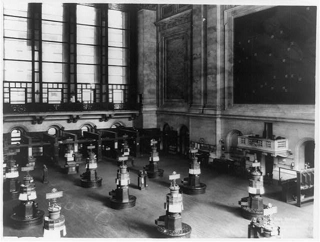 Interior of New York Stock Exchange